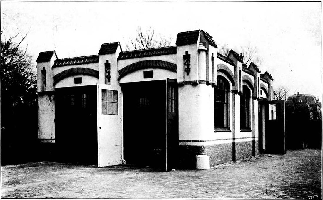 P.H. Scheltema (architect). Garage, Noordeinde Palace, The Hague.